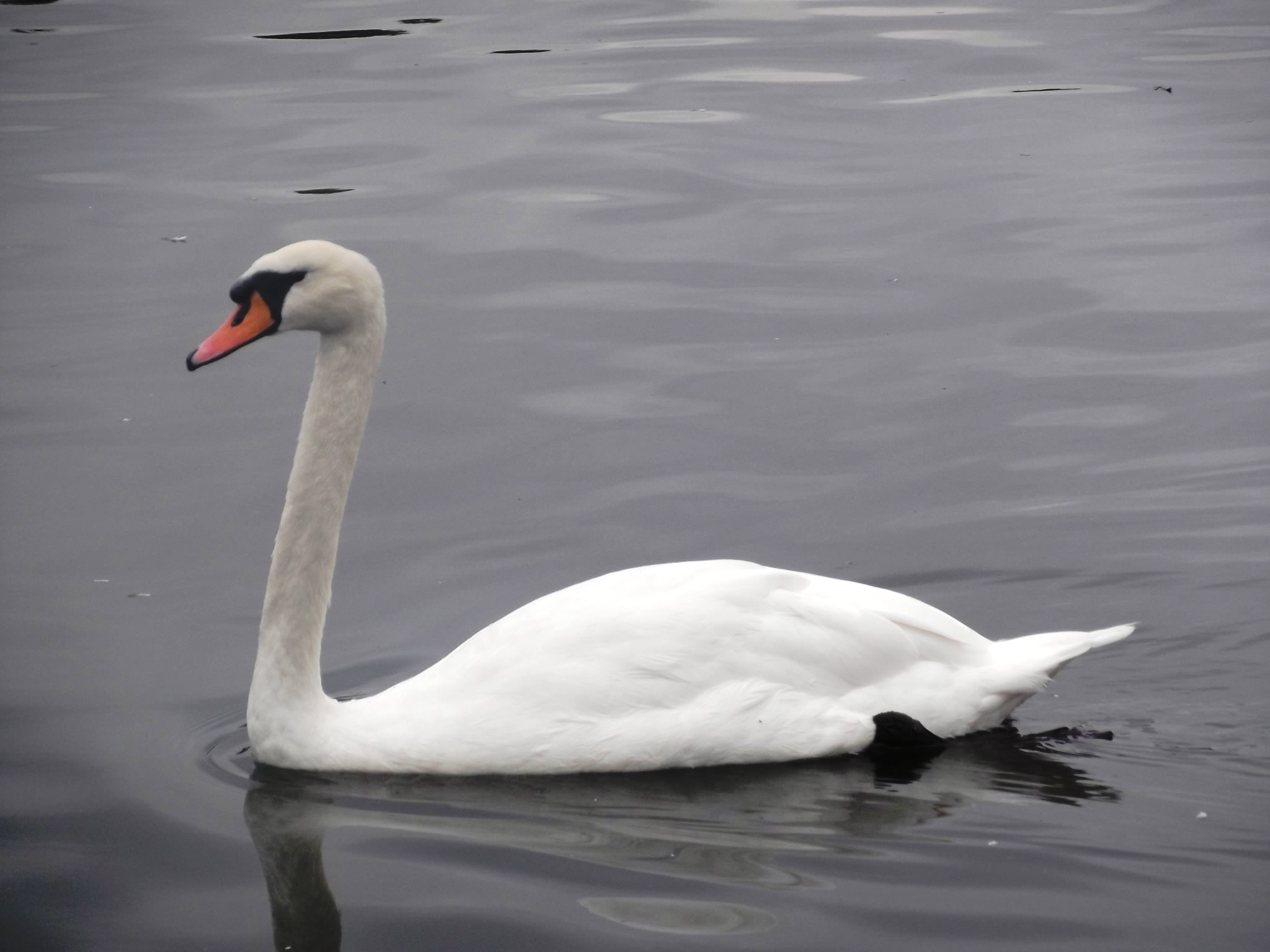 Mute swan, Hyde park, London.